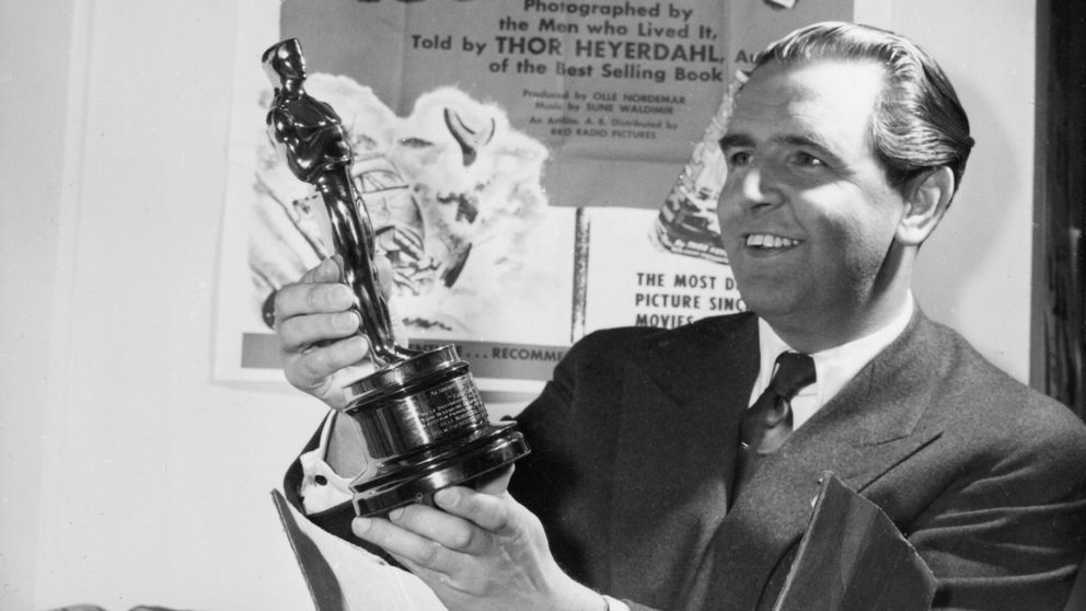 Olle Nordemar receiving his Academy Award he received in the mail.